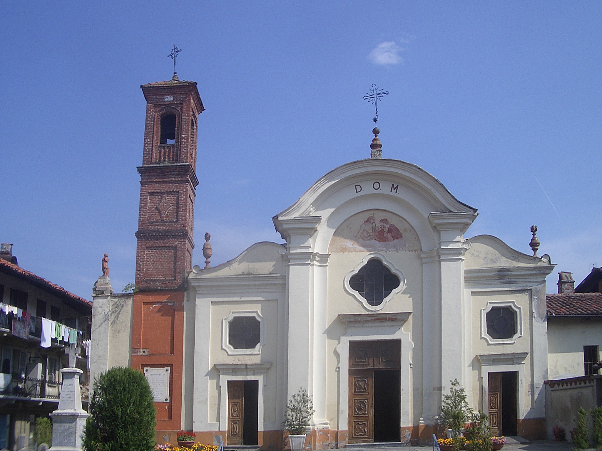 Busano (TO), parish church dedicated to st. Thomas